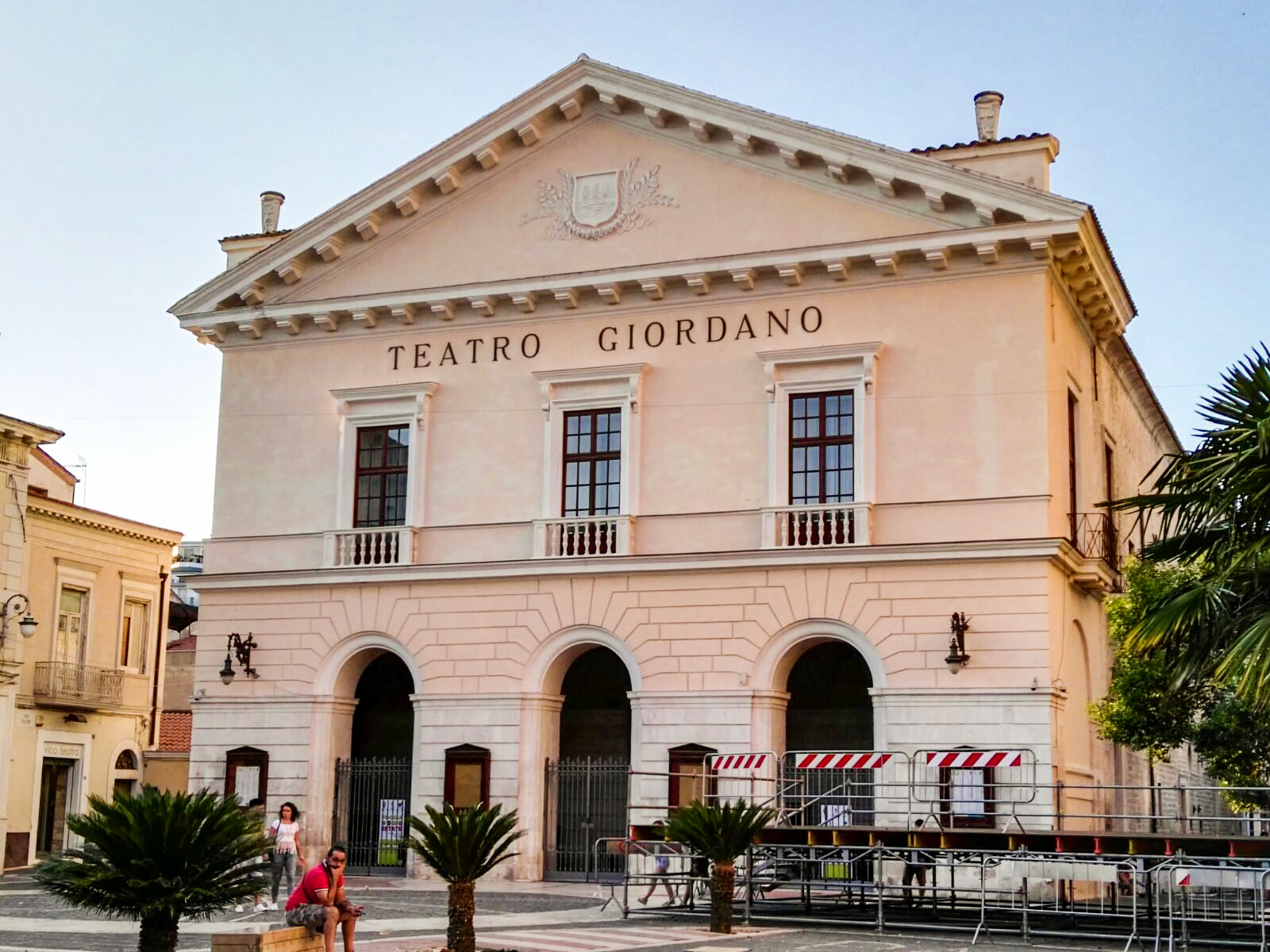 Facade of Theatre Umberto Giordano